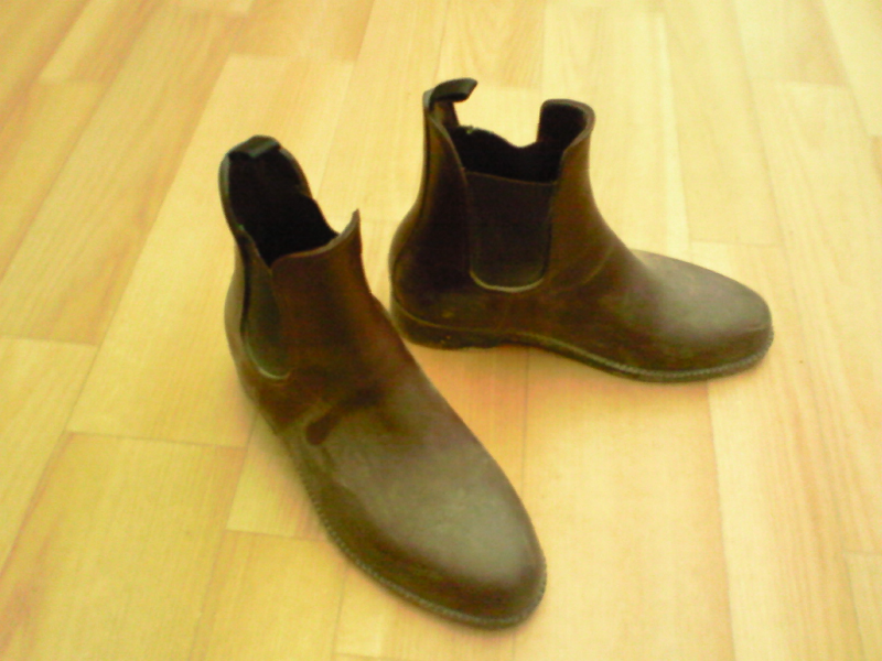 A pair of jodhpur boots for horse riding.